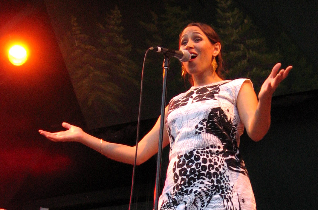 Photo of China Forbes, taken by Flickr:cosmic_bandita.